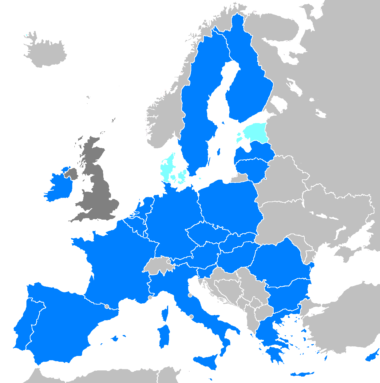 European People's Party (EPP) Group in the European Parliament, as of 01 Januari 2010. Blue: EU countries with more than one EPP MEP. Light blue: EU countries with one EPP MEP. Dark grey: EU countries without EPP MEPs. Light grey: Non-EU countries.